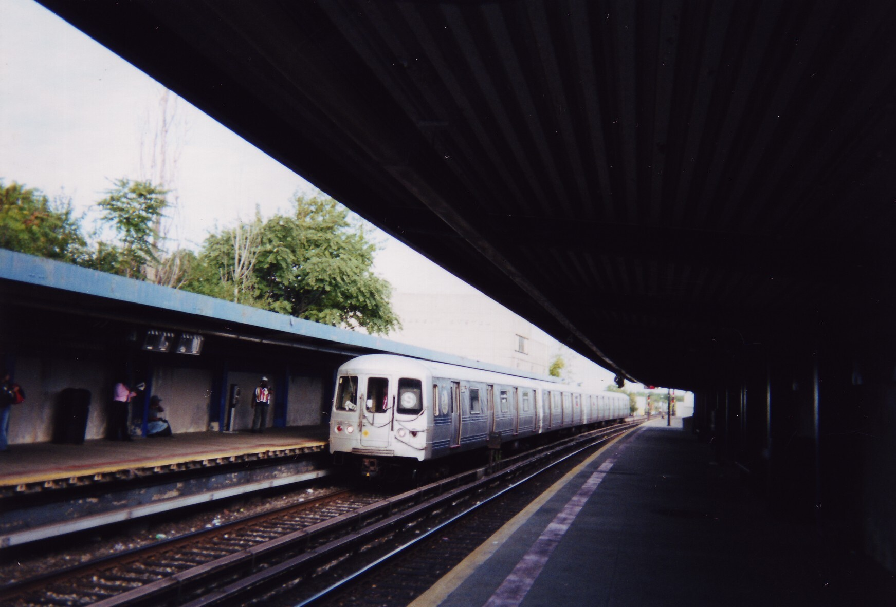 Rockaway Park Shuttle train of R44s at Broad Channel Shuttle Rockway Park del metro de Nueva York